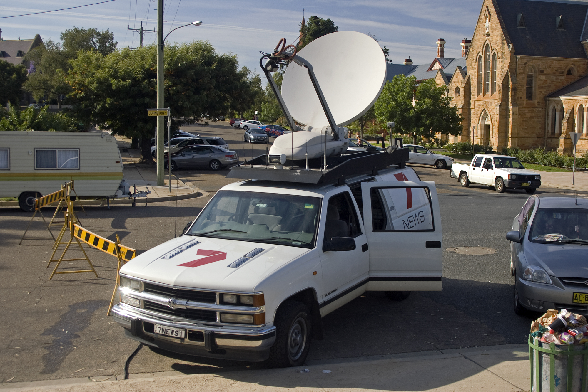 7 News broadcast vehicle.